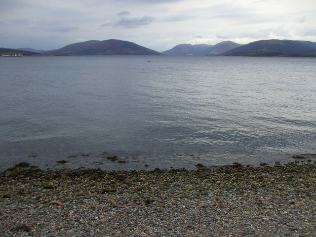 Rothesay Bay Standing on the beach near Mountstewart Road looking over Rothesay Bay toward Beinn Bhreac, Strone Point, Loch Striven and in the direction of the jetty at Invervegan. The orange buoys mark the line of the ferry channel.